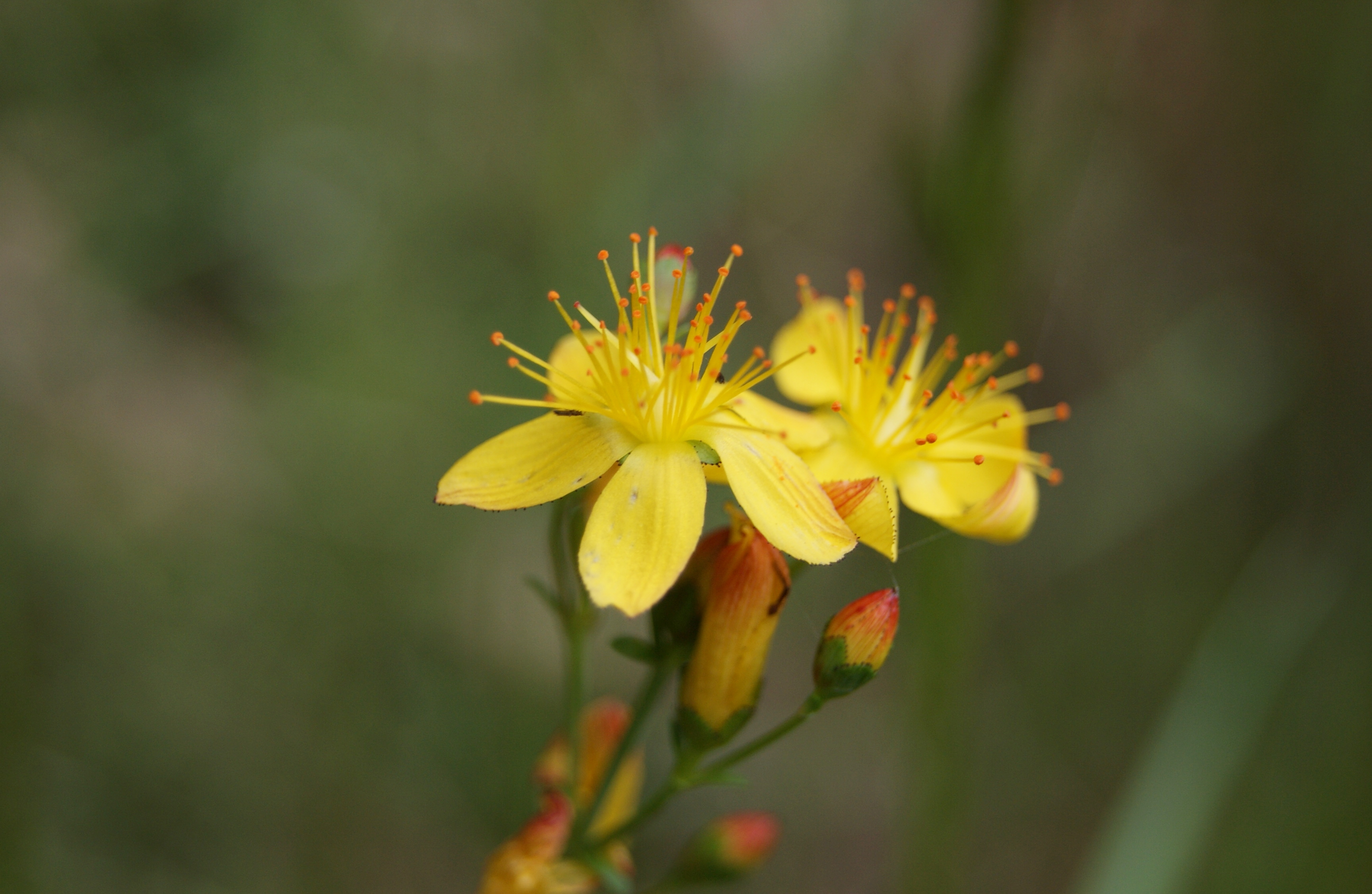 Hypericum pulchrum